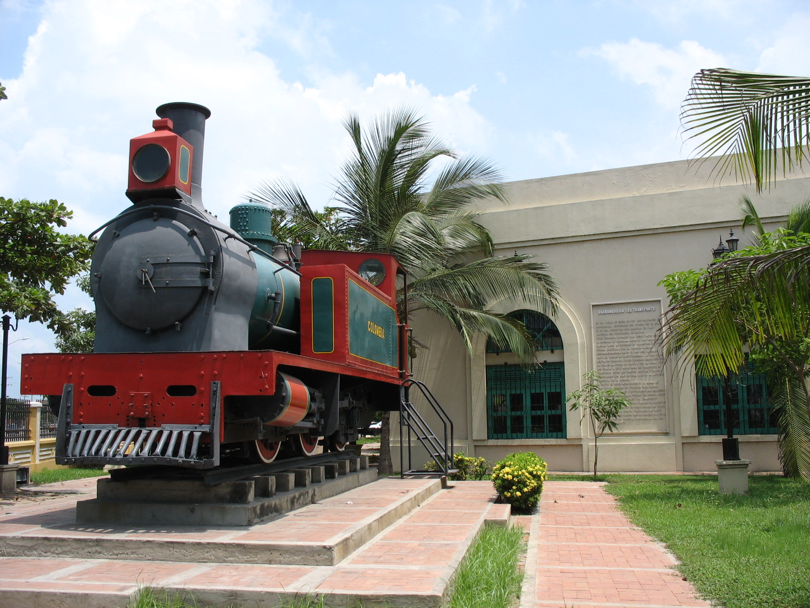 Barranquilla Locomotive Square